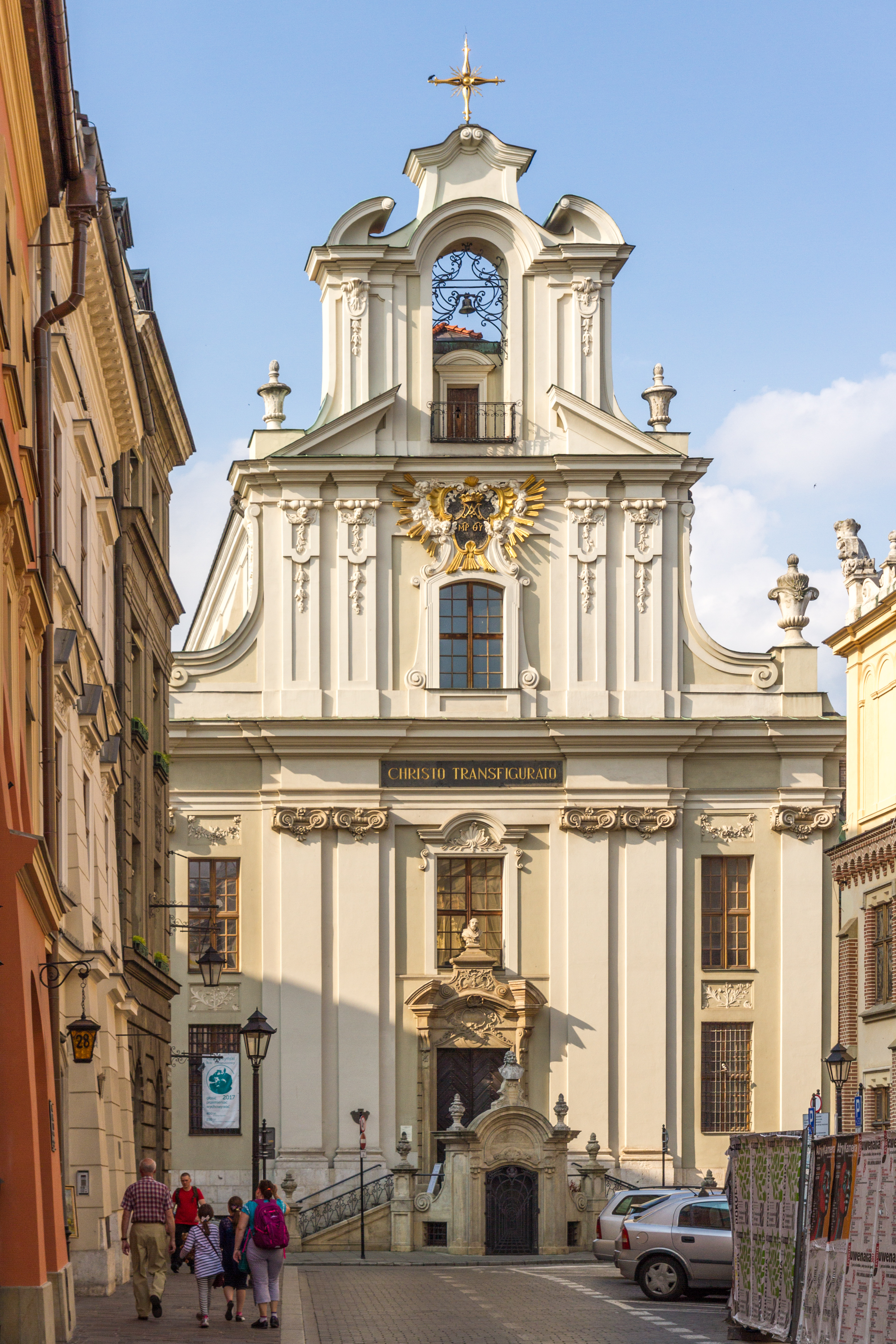 Church of the Transfiguration in Kraków